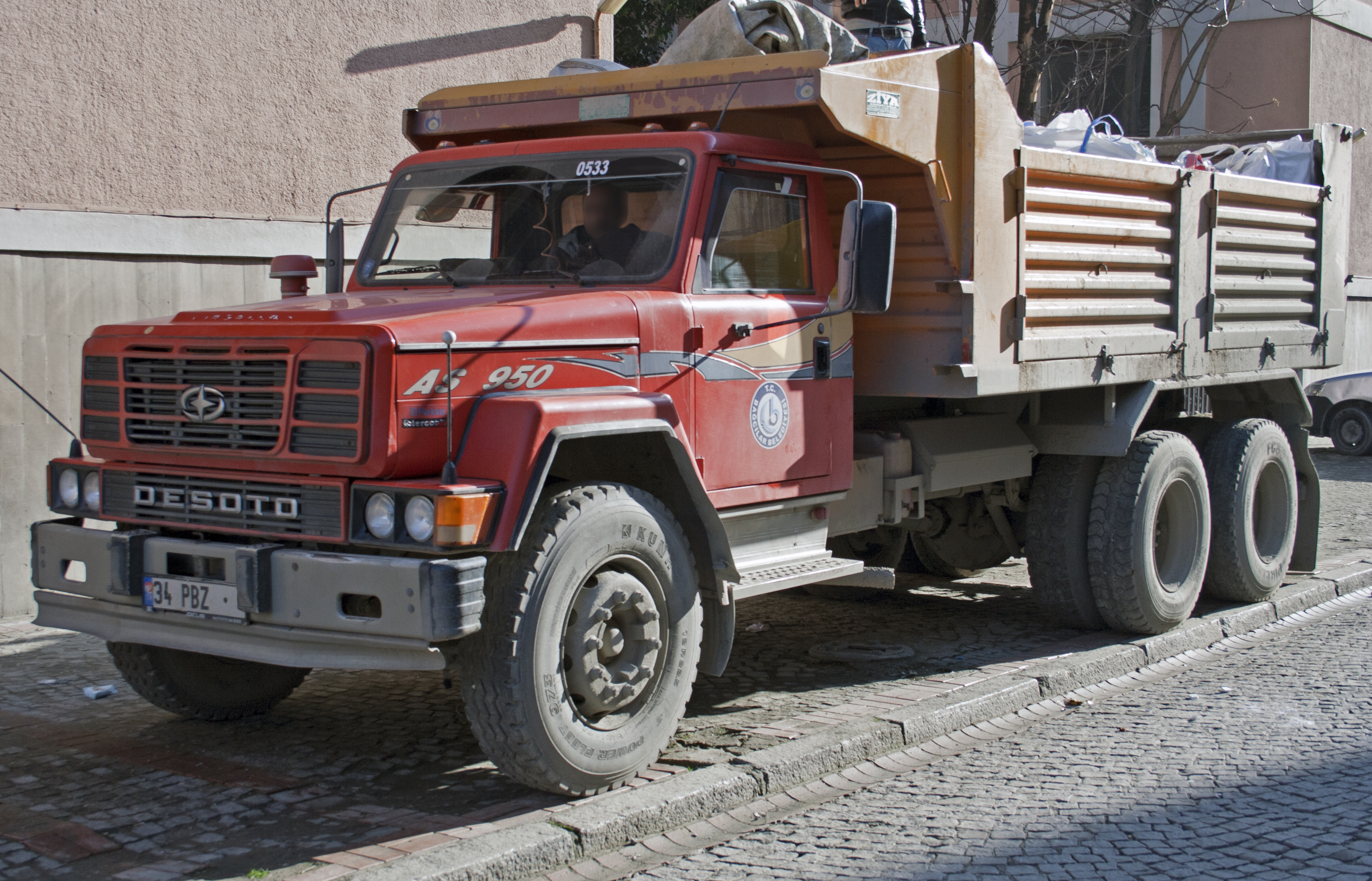 Askam-built De Soto AS950 truck, a late version. This has an intercooled Perkins turbodiesel engine.